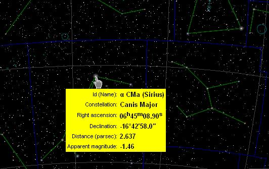 Screen short from made by owner and director of